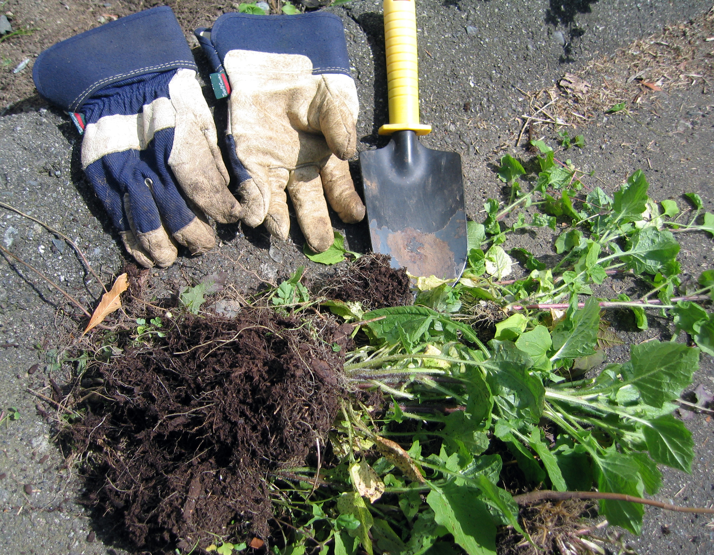 It's a dirty job, but very satisfying, especially when the whole root comes out. I spent a couple of hours weeding Anna's garden yesterday.